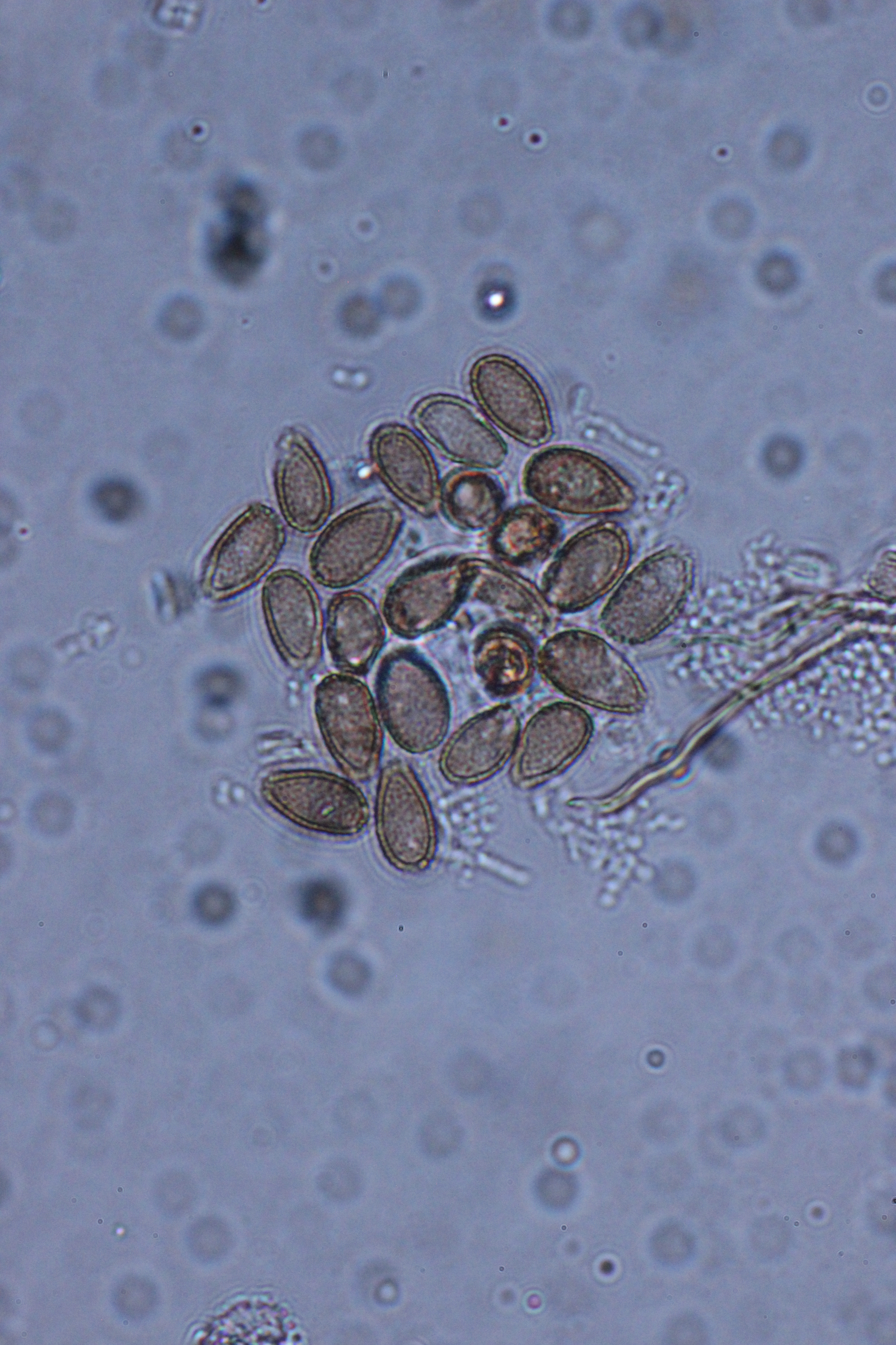 Smooth spores of G. sessile photographed at 100x under oil immersion